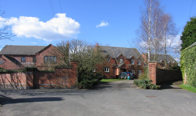 New houses in Goadby. A modern housing development adjacent to the church in Goadby.